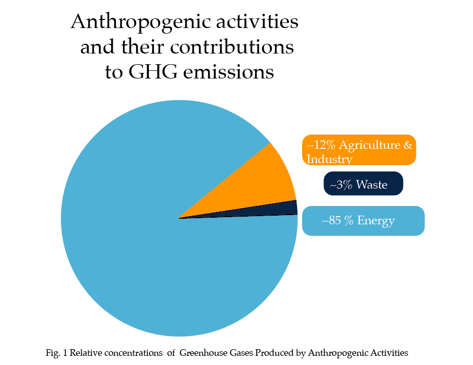 This figure is adapted from Figure. 1.2 in the article "The energy–climate challenge: Recent trends in CO2 emissions from fuel combustion". by Quadrelli, Roberta (Fall 2007). Energy is the largest contributor to CO2 emissions, with combined agriculture and industry second in producing the most emissions, and processing of waste in the U.S. emitting the least CO2.